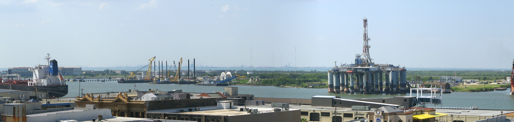 The western end of Pelican Island, including the campus of Texas A&M University at Galveston, as viewed from the 8th floor of the Bank of America building in downtown Galveston.